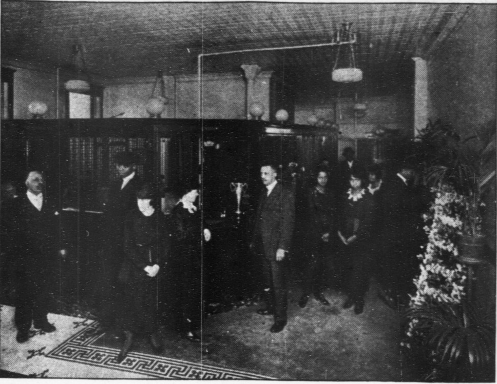 The opening day of Binga State Bank in Chicago, IL. Mr. Jesse Binga is pictured sixth from the left.